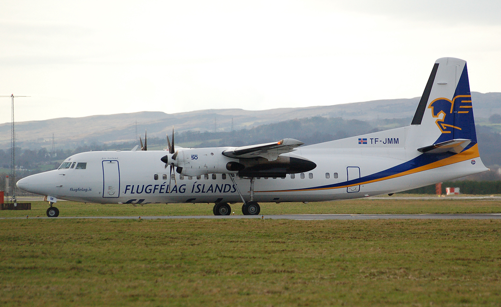 Flugfelag Islands - Air Iceland Fokker 50 (MSN 20214 TF-JMM) at Glasgow International Airport, November 2007.